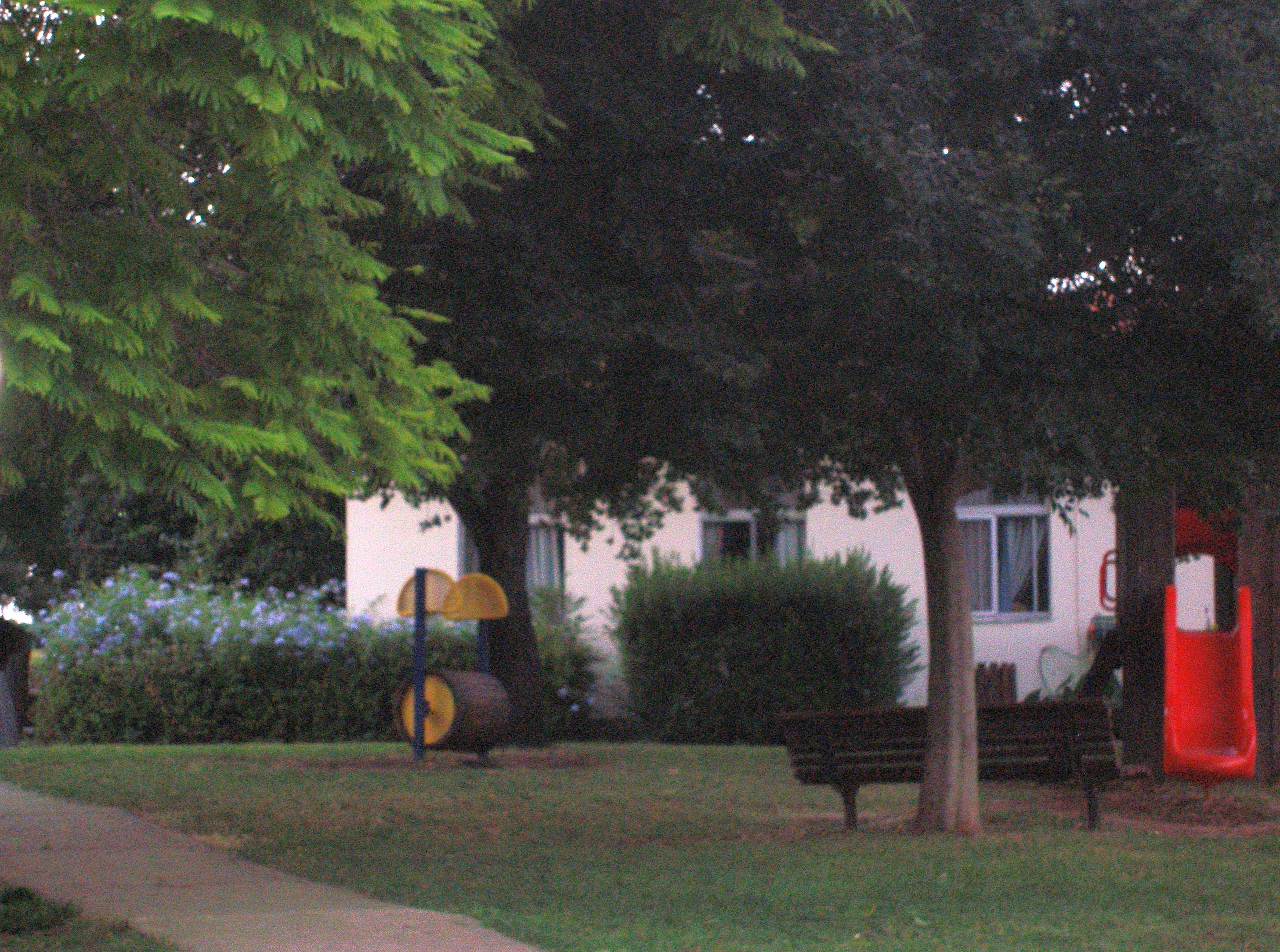 "Mezuba" kibbutz, the Upper Galilee, israel